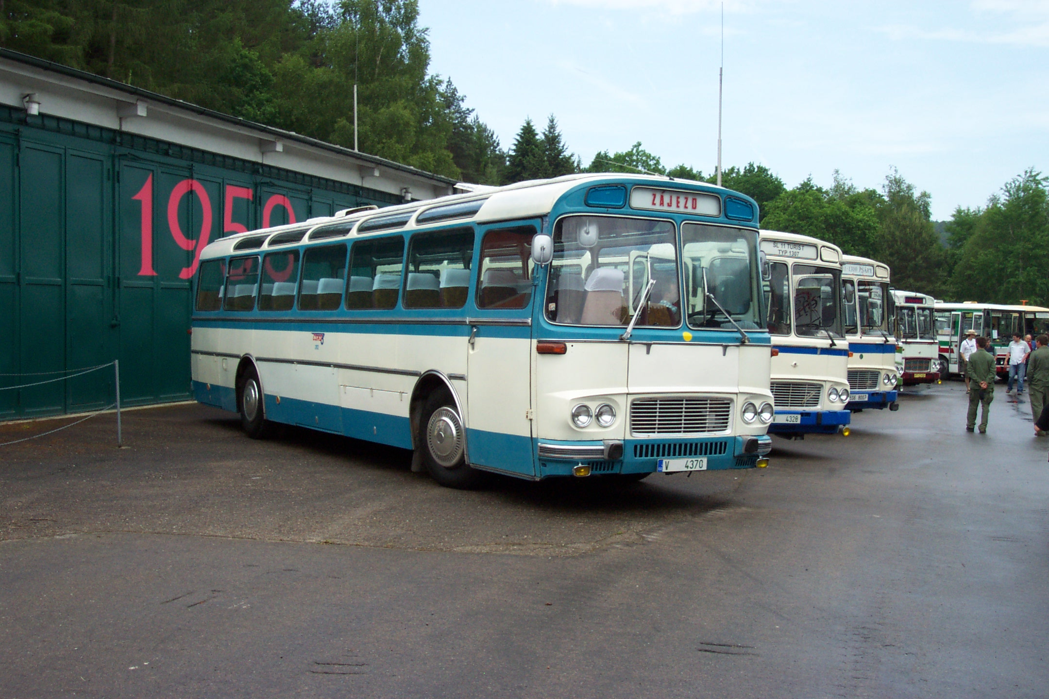 Bus type Karosa ŠD 11 in VTM Lešany museum